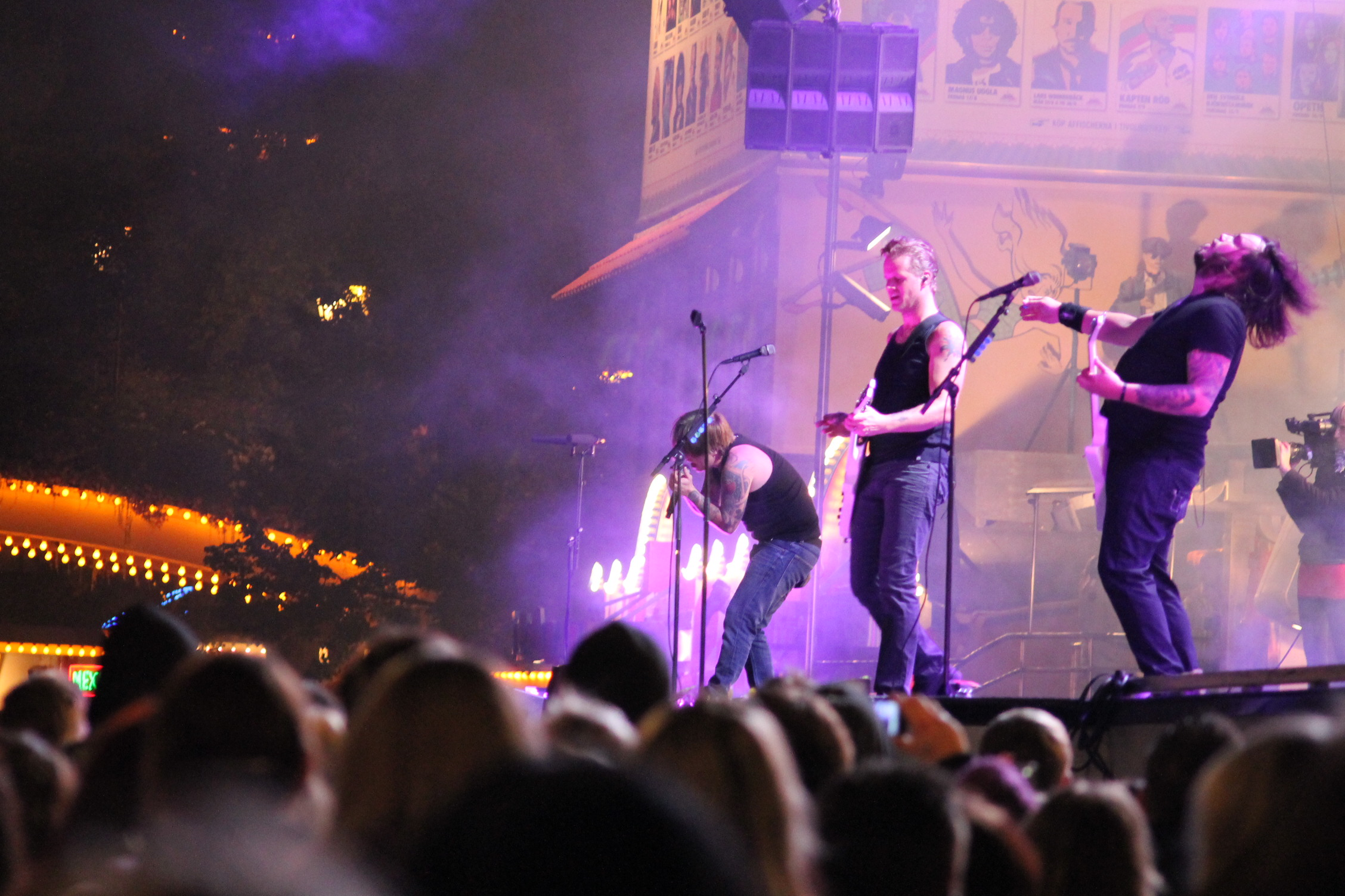 Takida consert in Stockholm, Sweden 2012